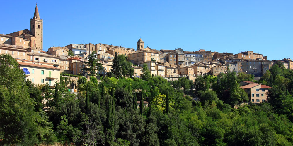 Panorama of Falerone, Fermo, Italia